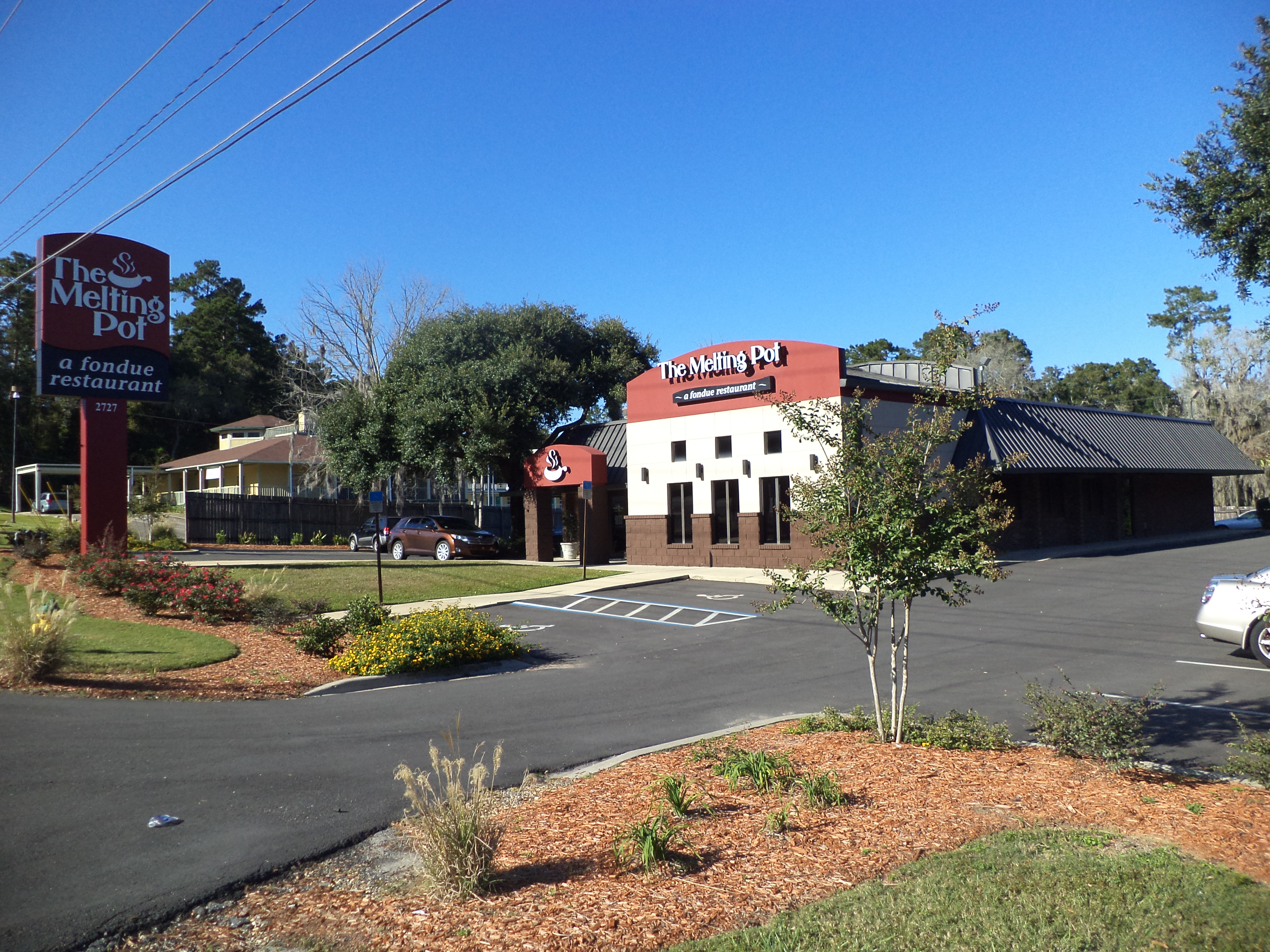 The Melting Pot, 2727 N Monroe St, Tallahassee, Leon County, Florida